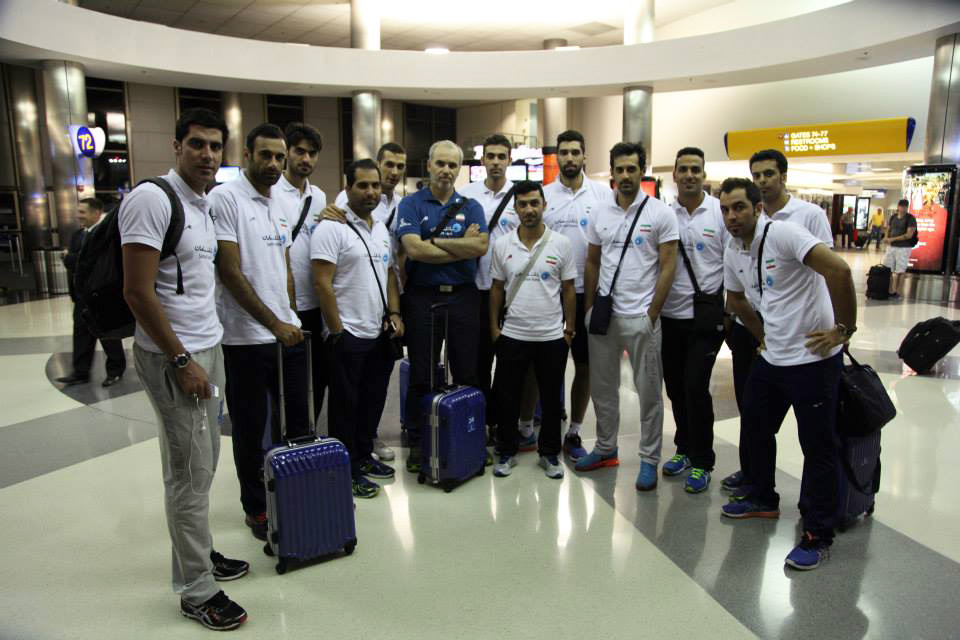 The Iranian Men's National Volleyball Team poses for a photo after arriving in Los Angeles, California, on August 6, 2014. Over the next week, the team will play four friendly matches against the U.S. Men’s National Volleyball Team. Officials from the State Department and USA Volleyball greeted the team at the airport.